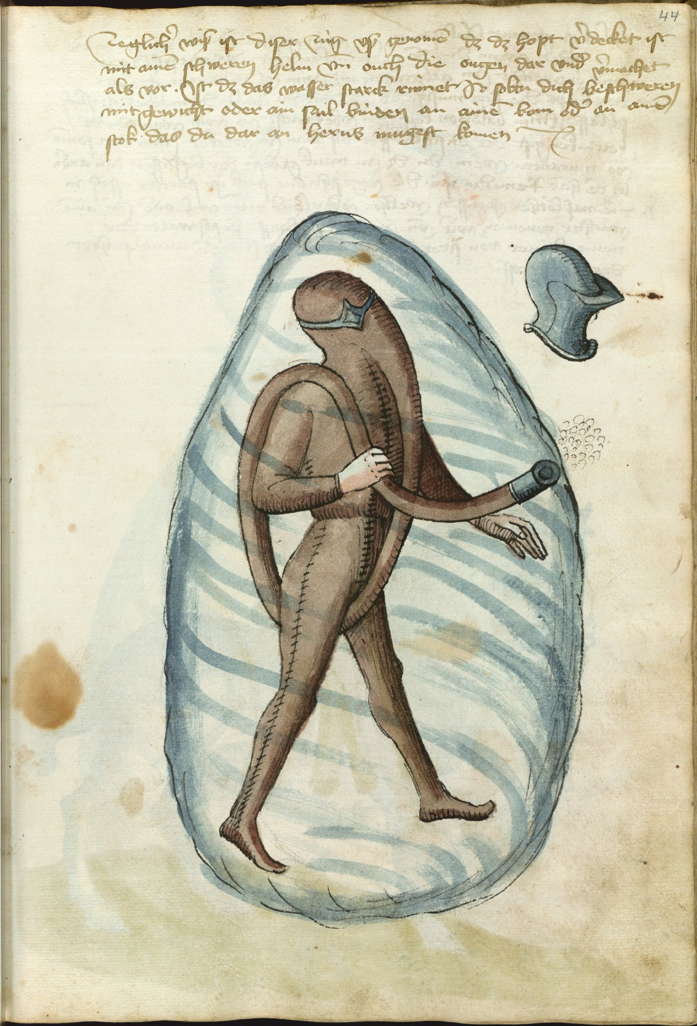 The Ms.Thott.290.2º is a fencing manual written in 1459 by Hans Talhoffer for his own personal reference and illustrated by Michel Rotwyler.